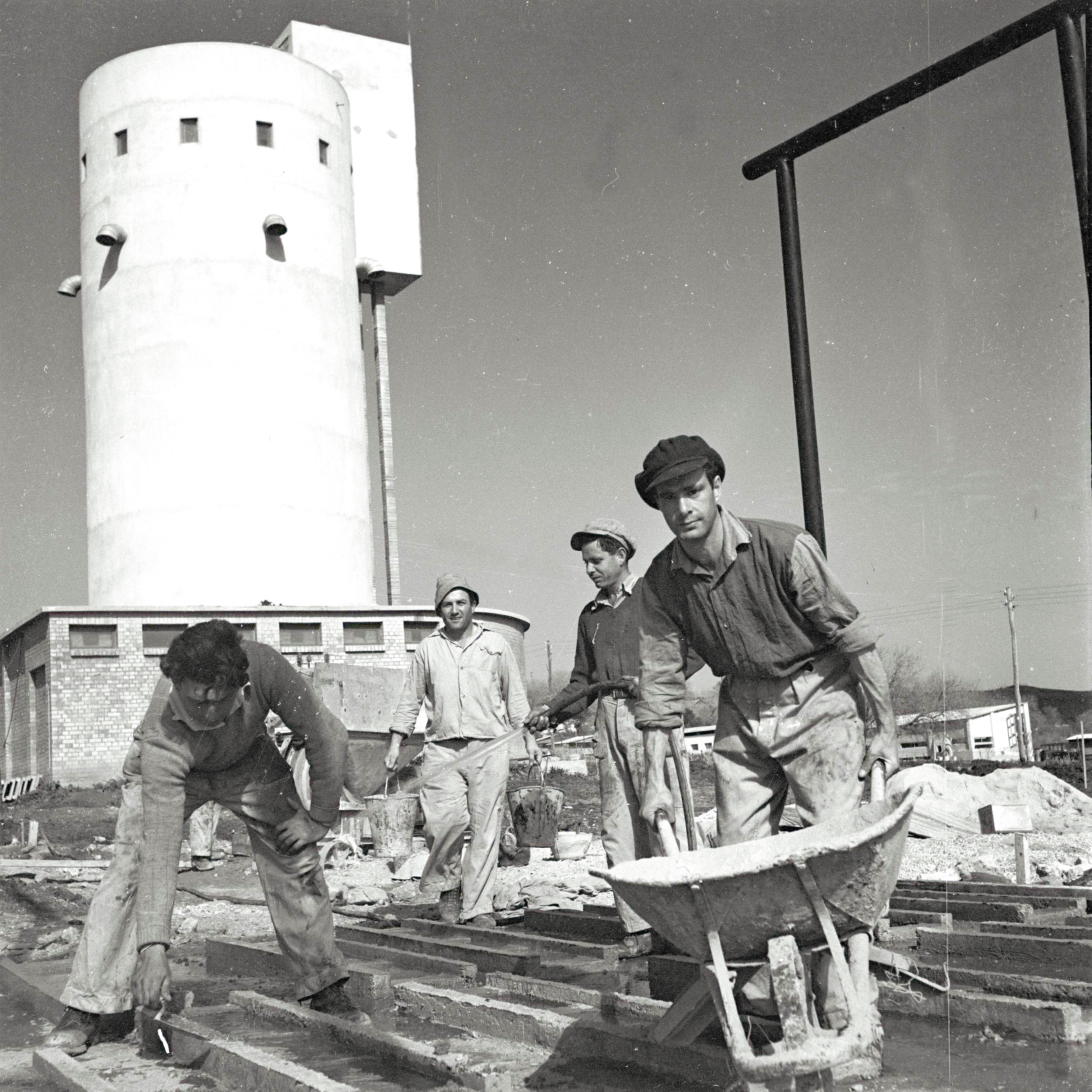 Members of the first youth aliya group from germany building new houses at their ultimate permanent settlement kibbutz alonim.